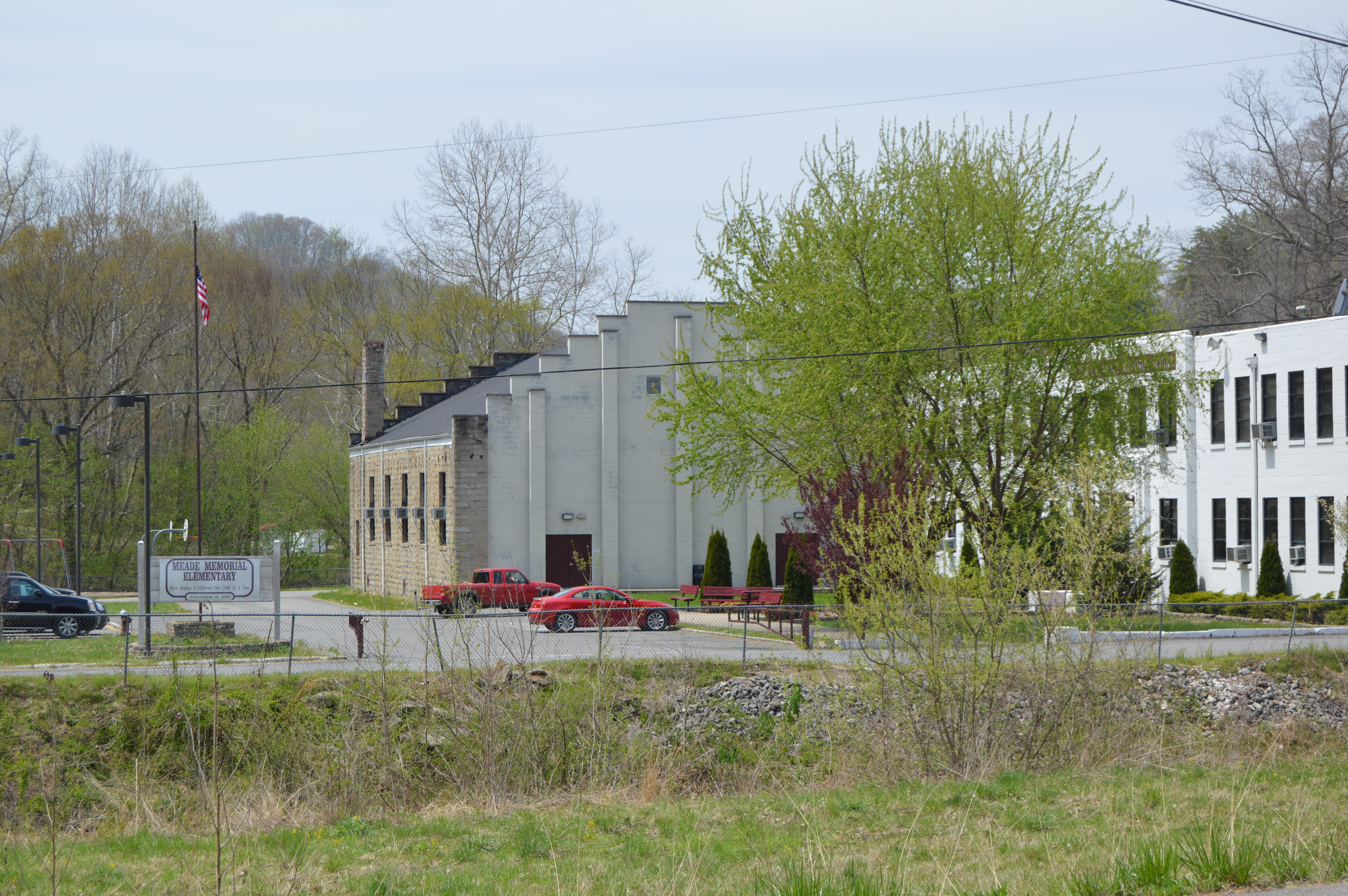 Distant view of the Meade Memorial Gymnasium, located off Kentucky Route 2040 in Williamsport, Kentucky, United States. Built in 1938, it is listed on the National Register of Historic Places.